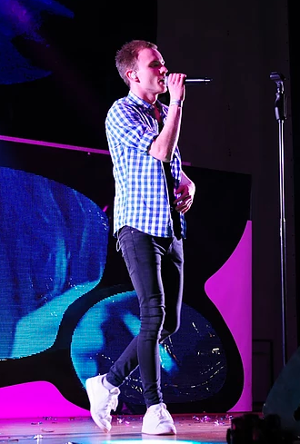 Toni Kraus at Stadthalle Chemnitz/Germany, 2016